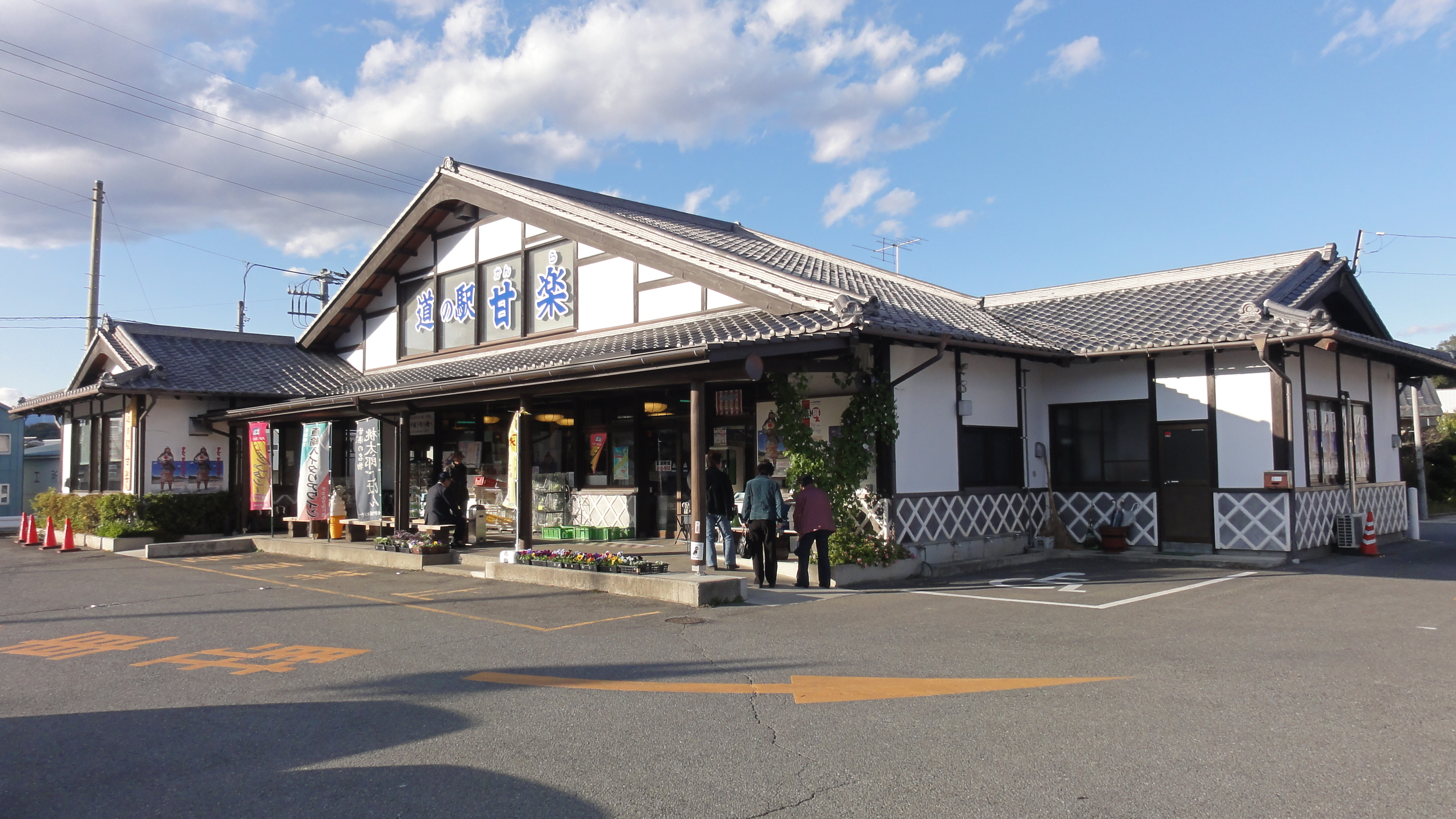 Road to station Kanra,Gunma prefecture,Japan